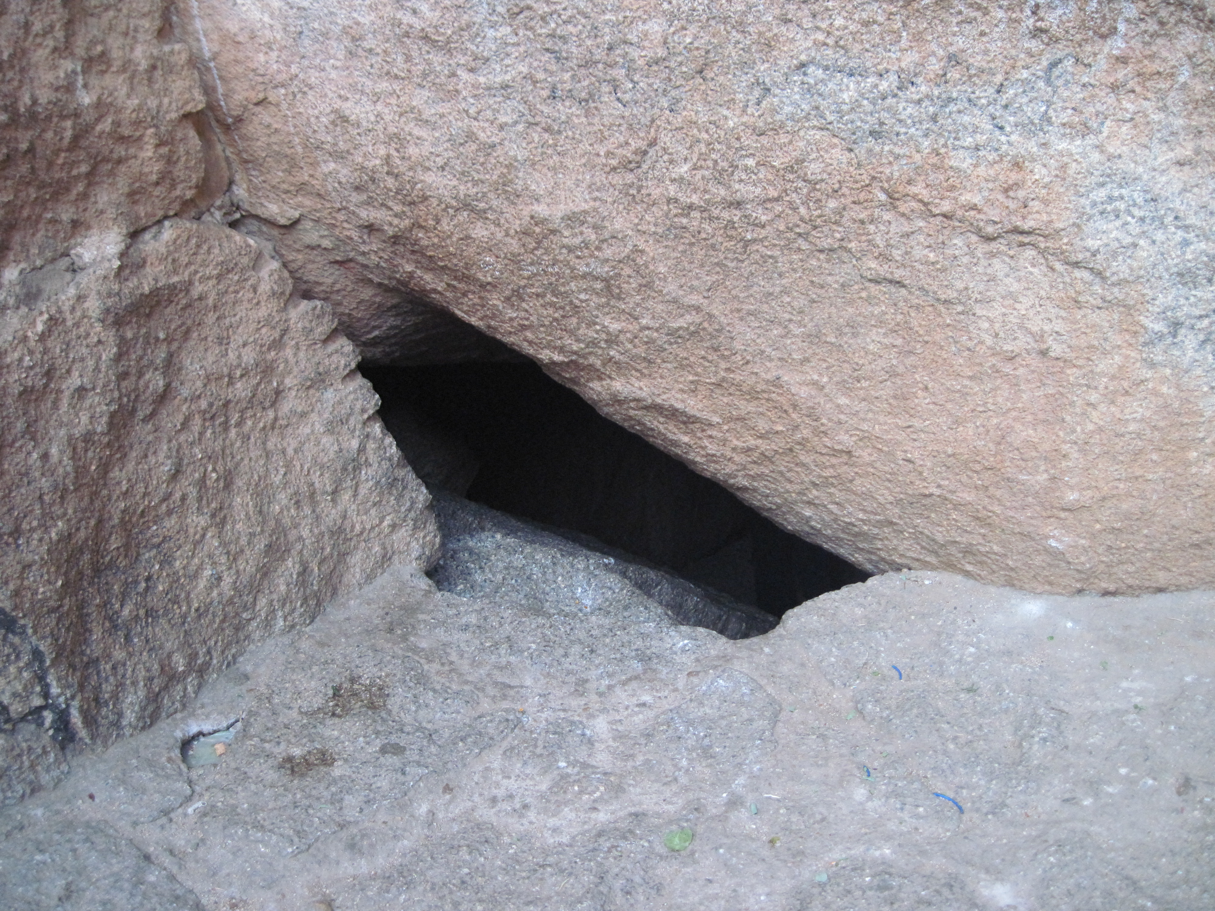 Onake Obavvana Kindi, Chitradurga Fort ಕನ್ನಡ: ಒನಕೆ ಓಬವ್ವನ ಕಿಂಡಿ, ಚಿತ್ರದುರ್ಗದ ಕೋಟೆ.